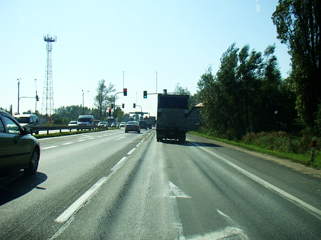 Intersection on National road nr 1 in Poczesna, Częstochowa County, direction to Katowice, Poland